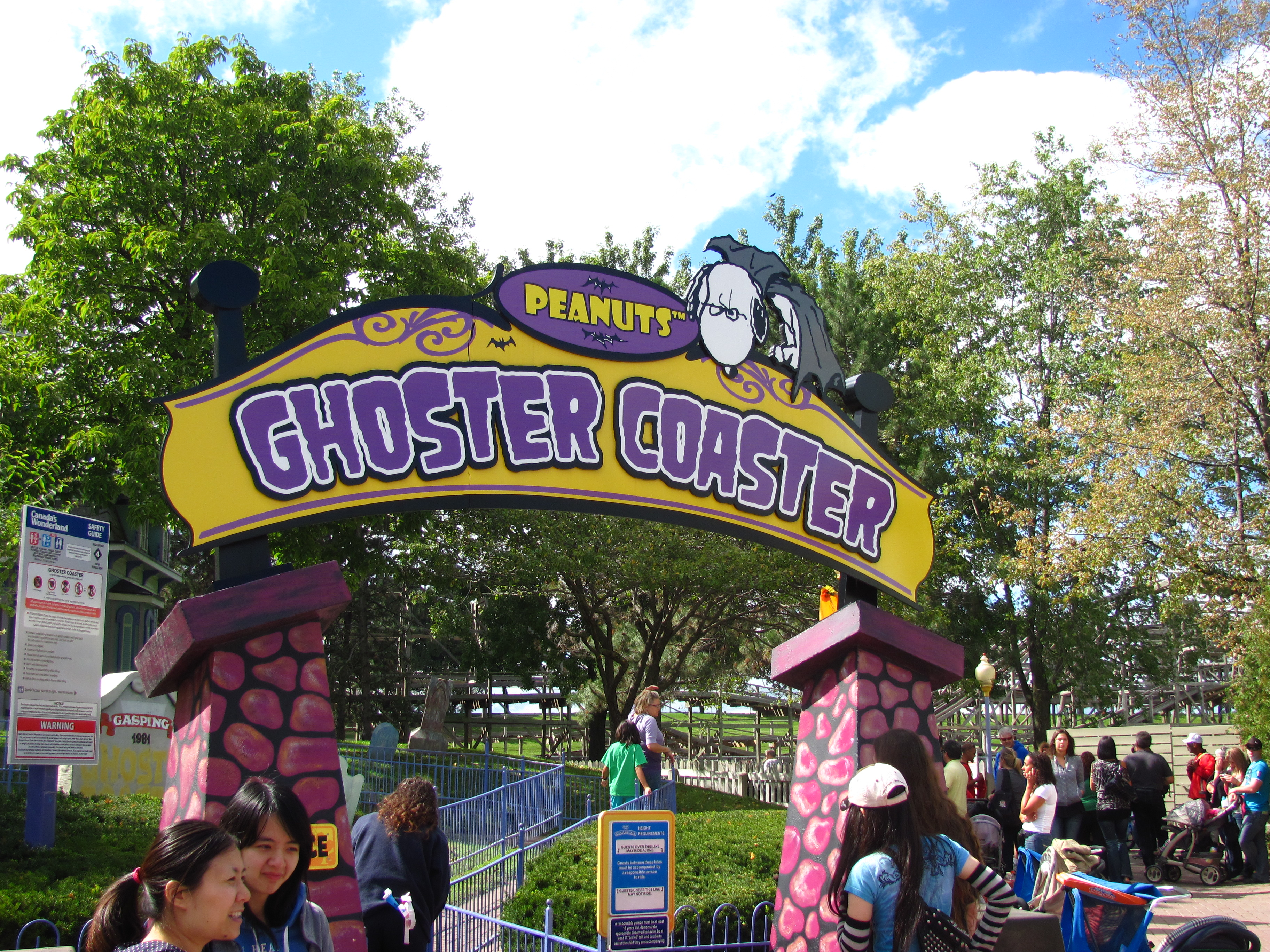 Canada's Wonderland 061